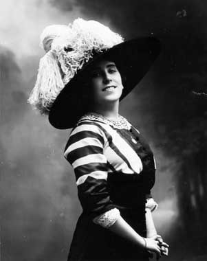 Mario Nunes Vais (1856-1932), "Lucrezia Bori, Spanish soprano (1900s)".